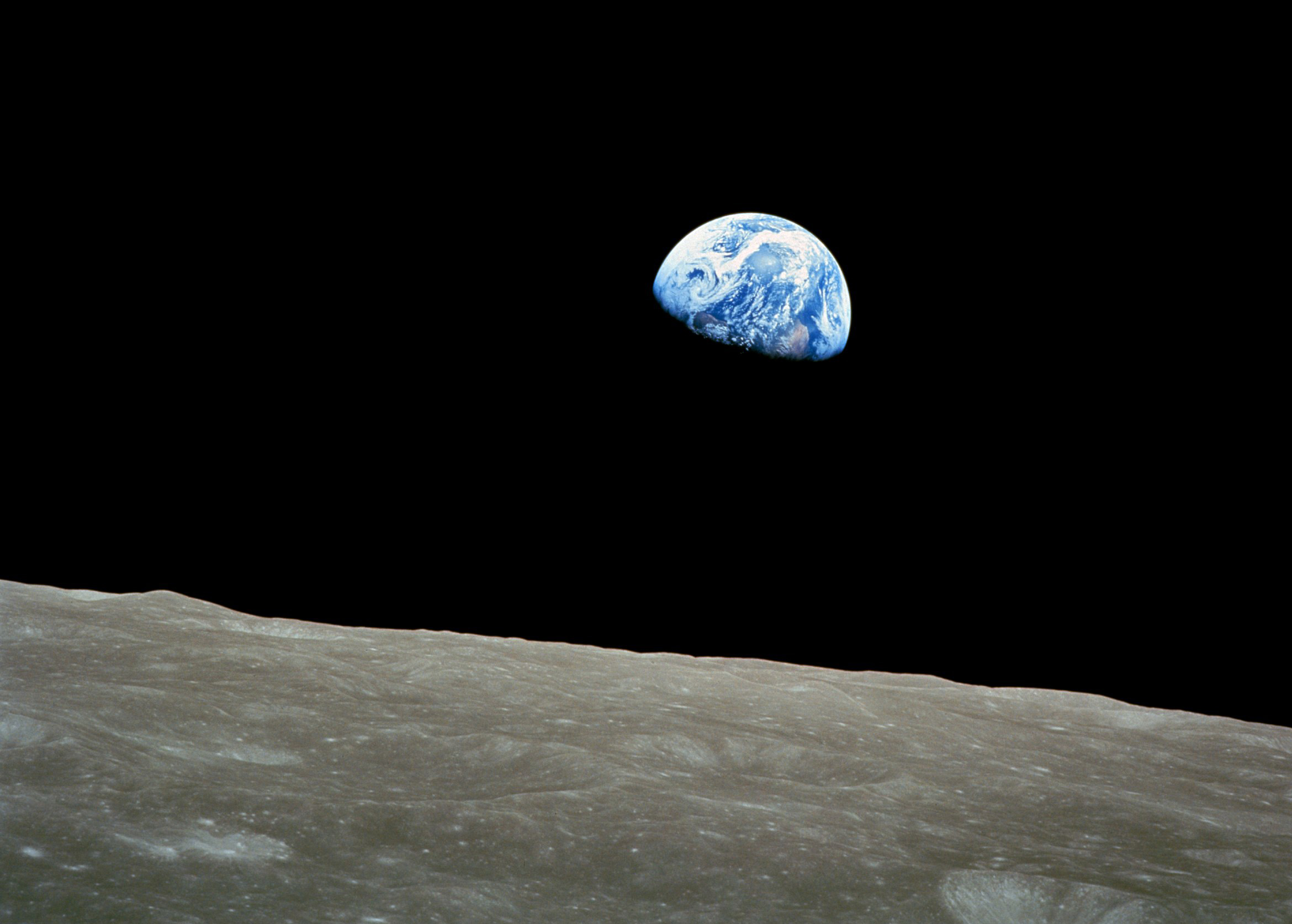 Taken by Apollo 8 crewmember Bill Anders on December 24, 1968, at mission time 075:49:07 [4] (16:40 UTC), while in orbit around the Moon, showing the Earth rising for the third time above the lunar horizon. The lunar horizon is approximately 780 kilometers from the spacecraft. Width of the photographed area at the lunar horizon is about 175 kilometers. [5] The land mass visible just above the terminator line is west Africa. Note that this phenomenon is only visible to an observer in motion relative to the lunar surface. Because of the Moon's synchronous rotation relative to the Earth (i.e., the same side of the Moon is always facing Earth), the Earth appears to be stationary (measured in anything less than a geological timescale) in the lunar "sky". In order to observe the effect of Earth rising or setting over the Moon's horizon, an observer must travel towards or away from the point on the lunar surface where the Earth is most directly overhead (centred in the sky). Otherwise, the Earth's apparent motion/visible change will be limited to: 1. Growing larger/smaller as the orbital distance between the two bodies changes. 2. Slight apparent movement of the Earth due to the eccenticity of the Moon's orbit, the effect being called libration. 3. Rotation of the Earth (the Moon's rotation is synchronous relative to the Earth, the Earth's rotation is not synchronous relative to the Moon). 4. Atmospheric & surface changes on Earth (i.e.: weather patterns, changing seasons, etc.).